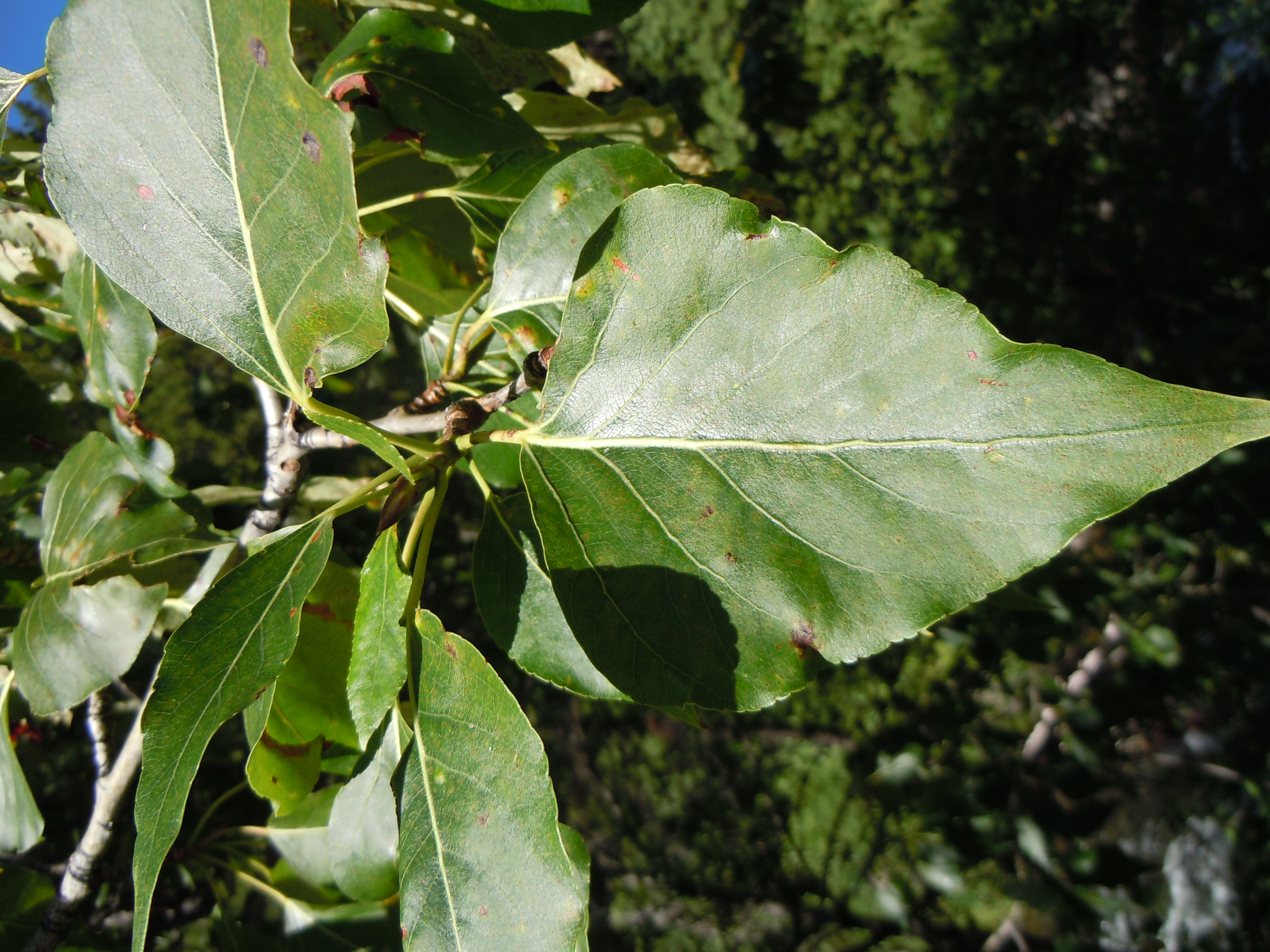 The leaves are typically more green above than below.